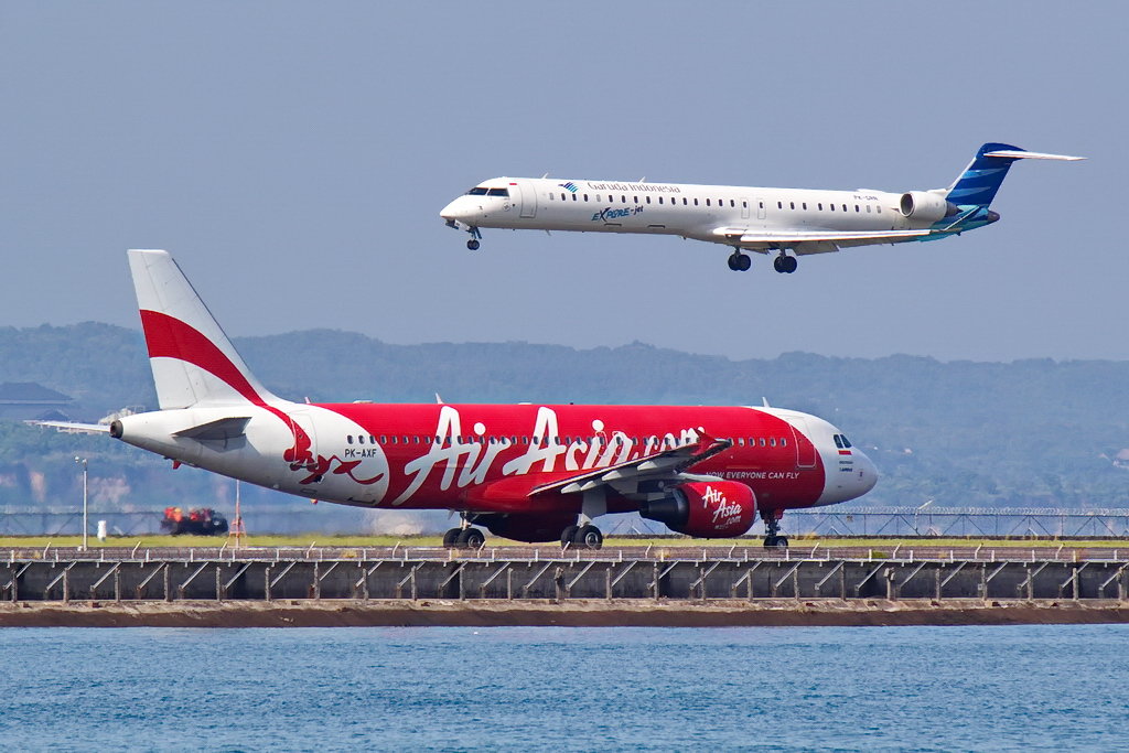 Garuda Indonesia CRJ1000 (PK-GRN) and Indonesia AirAsia Airbus A320 (PK-AXF) at Bali Ngurah Rai Airport